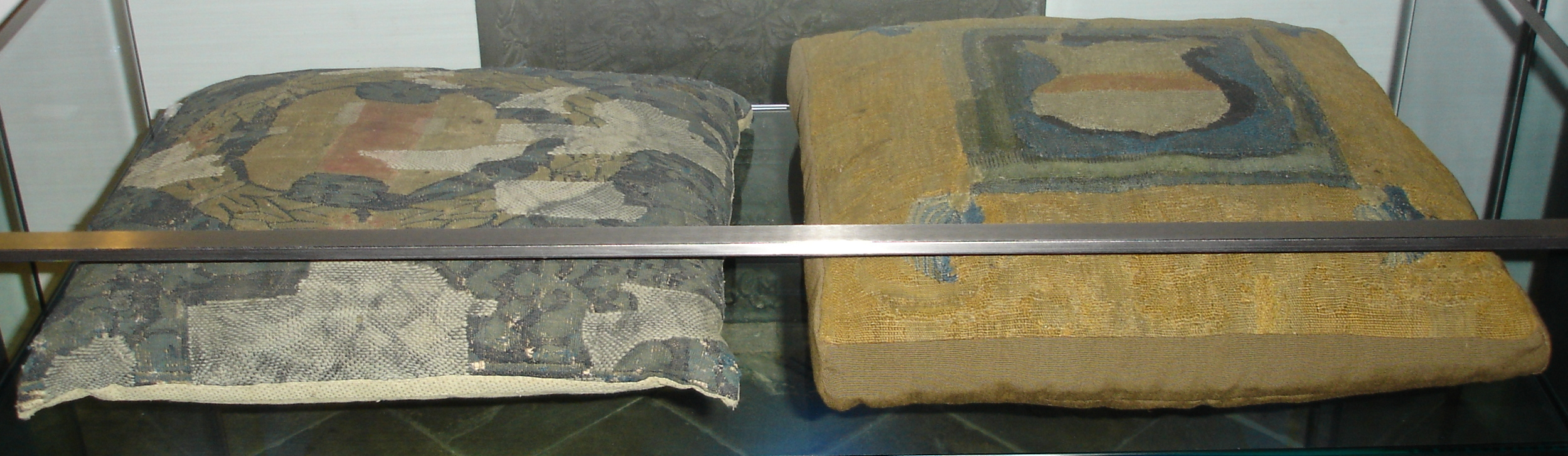 Two cushions used in the hall of peace of the historical city hall in Münster, Westphalia, Germany